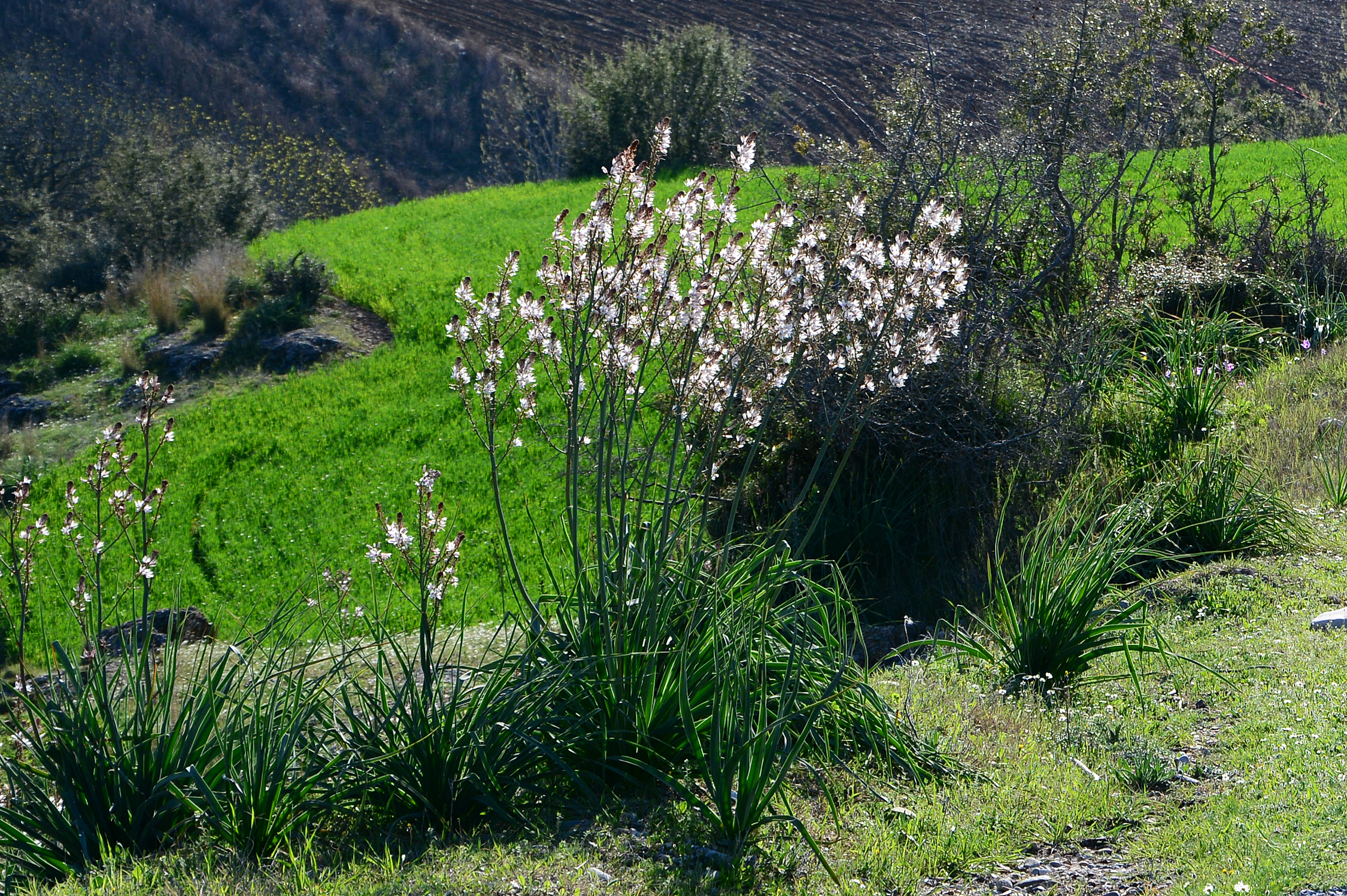 Summer ashphodels (Asphodelus aestivus), Sayca, İmamoğlu - Adana, Turkey.